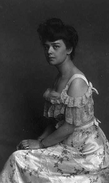 American poet, writer, racehorse owner, socialite, and philanthropist Helen Hay Whitney (1875-1944) photographed by Frances Benjamin Johnston (1864-1952)